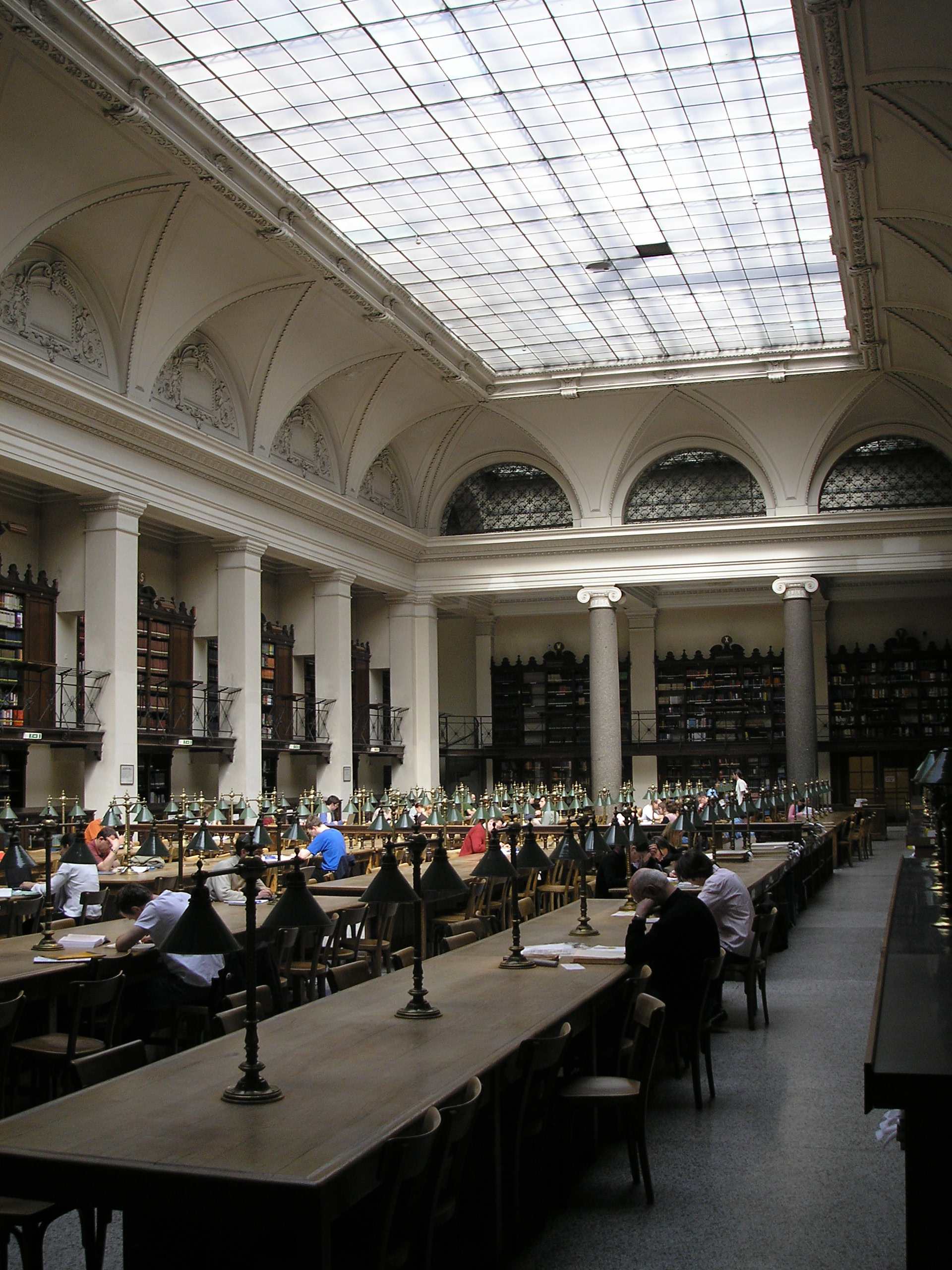 Description: Interior view of the main library reading hall (Hauptlesesaal) of the University of Vienna. Source: self-made, I release it into the public domain. Gryffindor 14:33, 3 April 2006 (UTC)